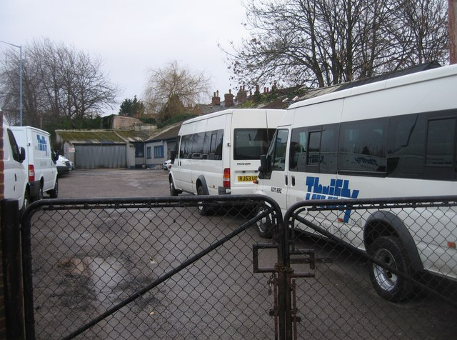 Thrifty van & car hire Mortimer Lane.